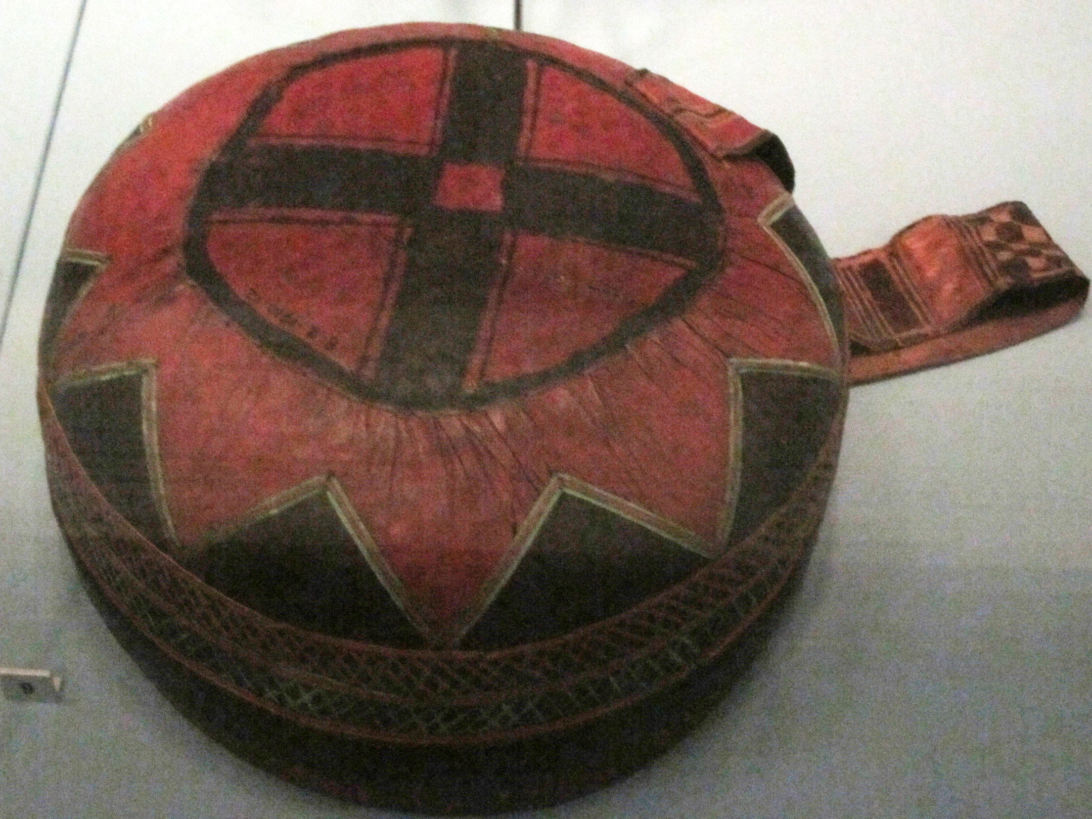 Photo taken at the World Museum Liverpool, England.